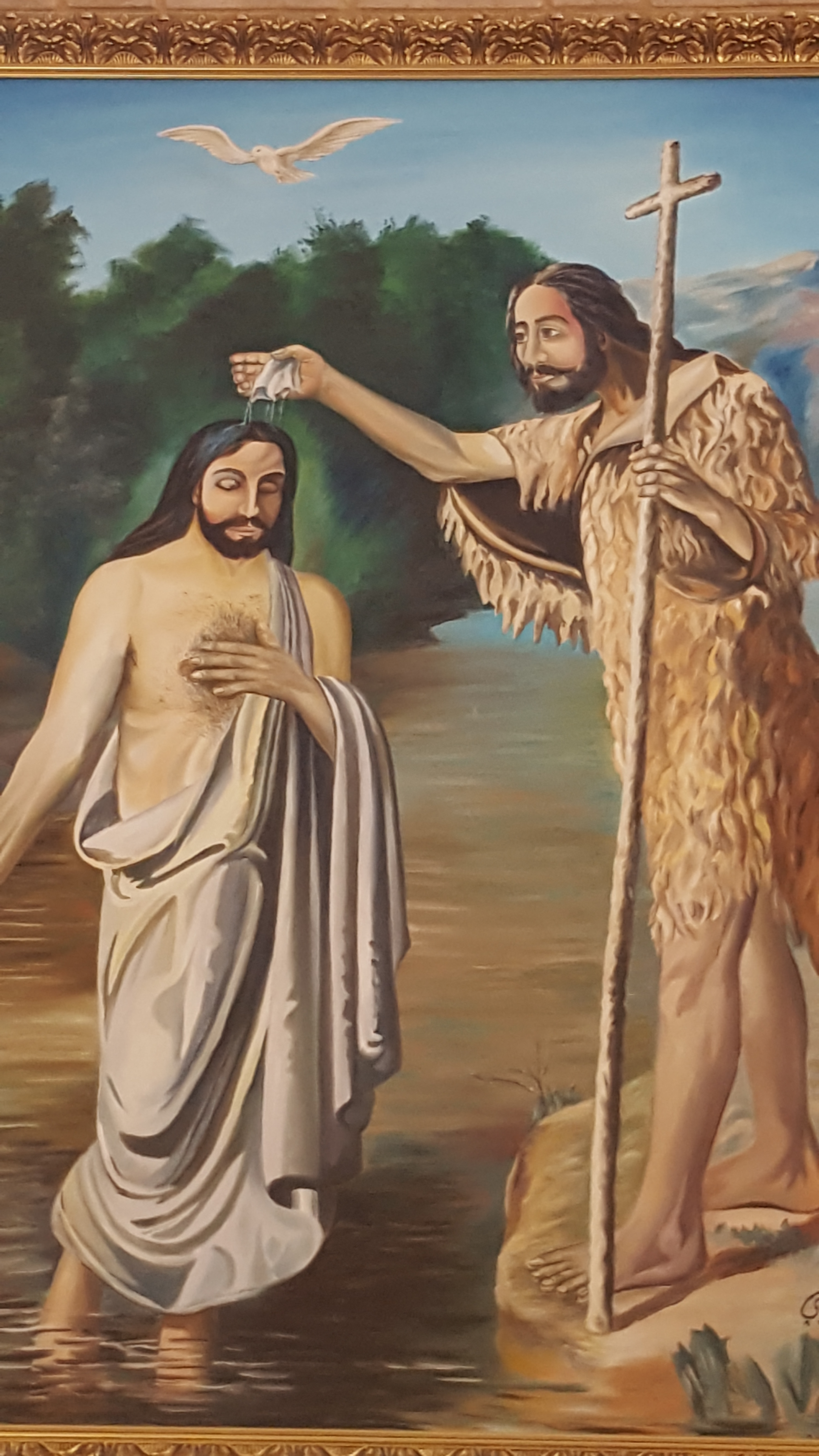 Dopet på tavla